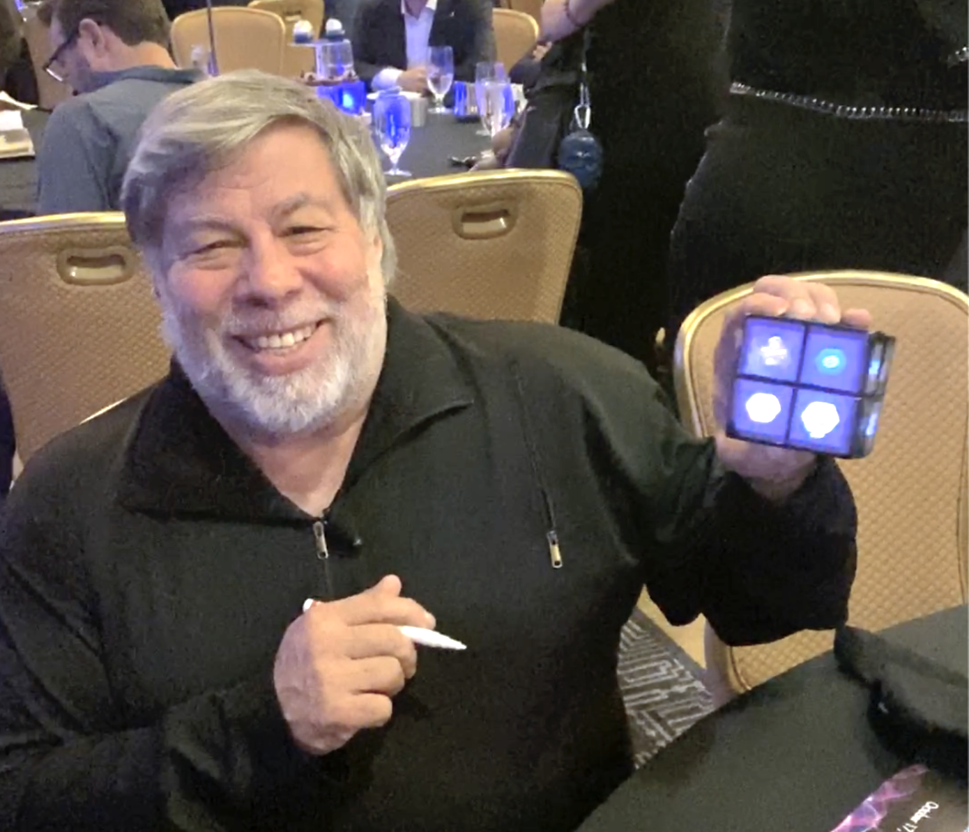 Wozniak with WOWCube device at DesTechAz 2019